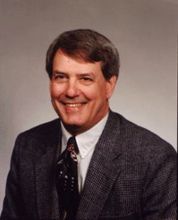 James S. Albus Dr. James S. Albus received a B.S. in Physics in 1957 from Wheaton College in Illinois and received an M.S. in Electrical Engineering in 1958 from Ohio State University, and his Ph.D. in Electrical Engineering from the University of Maryland in 1972. In 1973, Dr. Albus joined NBS as a Project Manager for the Sensors and Computer Technology Division. In 1981, as Group Leader for Programmable Automation, he contributed to the development of a theory of hierarchical control for robots and intelligent machines, and the design of the control system architecture of the Automated Manufacturing Research Facility (AMRF). In 1986, Dr. Albus contributed to the development of NBS/NASA Standard Reference Model for Telerobot Control System Architecture (NASREM). In 1992, Dr. Albus worked on the development of a RoboCrane, which was selected as one of the top 100 inventions of the year. He served as Division Chief of the Intelligent Systems Division, Manufacturing Engineering Laboratory. From 1958-1969 he worked for the NASA Goddard Space Flight Center as a Physicist-Engineer and as Acting Head of the Video Techniques Section from 1963-1969. Dr. Albus is a member of the Institute of Electrical and Electronics Engineers, the Society of Manufacturing Engineers and Robotics International.